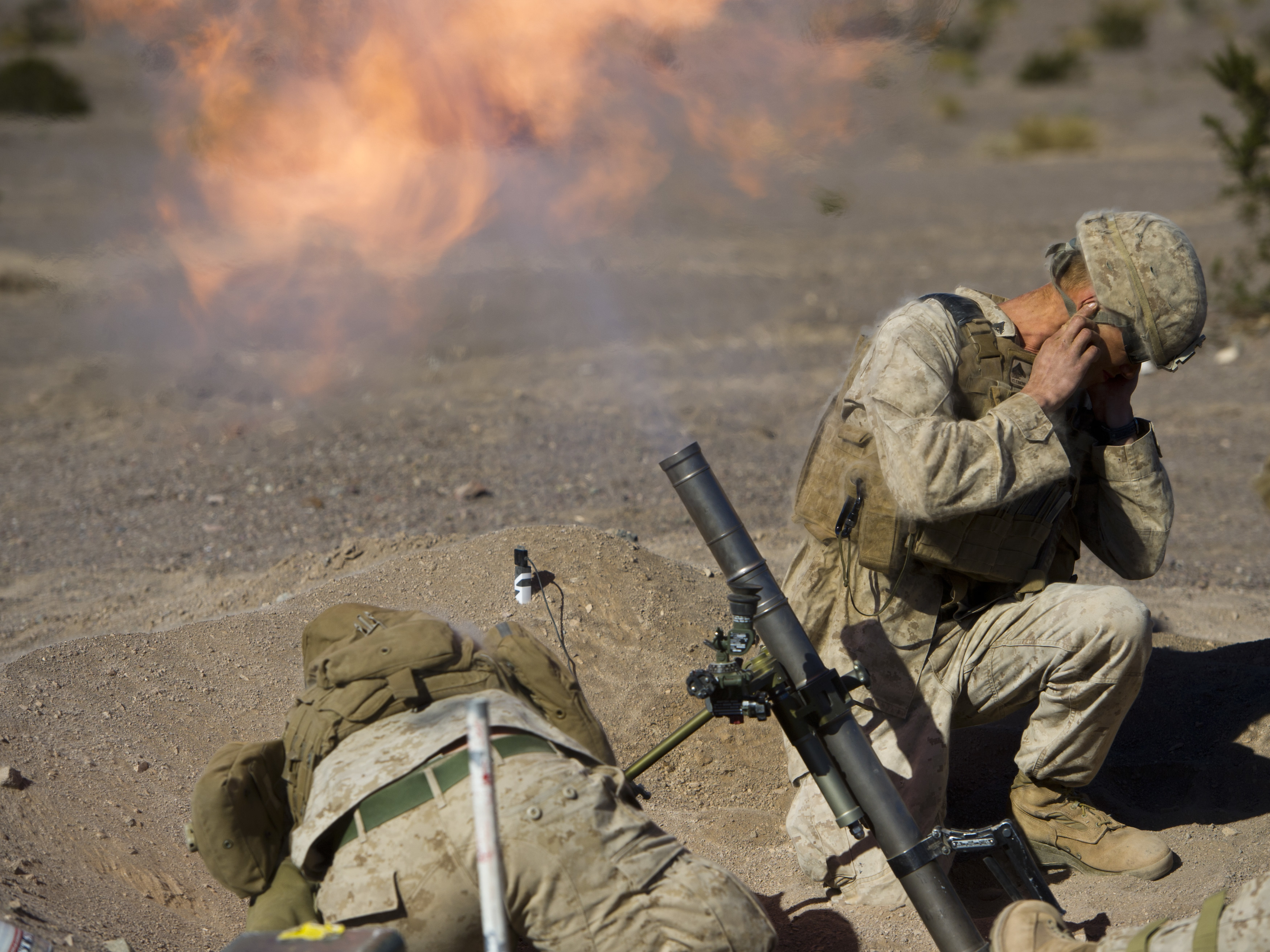 U.S. Marines assigned to Bravo Company, 1st Battalion, 4th Marine Regiment fire a M224 60 mm mortar during Integrated Training Exercise 2-15 at Marine Corps Air Ground Combat Center (MCAGCC) Twentynine Palms Calif., Feb. 10, 2015. MCAGCC conducts relevant live-fire combined arms training, urban operations, and Joint/Coalition level integration training that promote operational forces readiness. (U.S. Air Force photo by Staff Sgt. Kyle Brasier/Released)